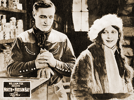 Actors Tom Mix and Kathleen Key in the movie North of Hudson Bay.